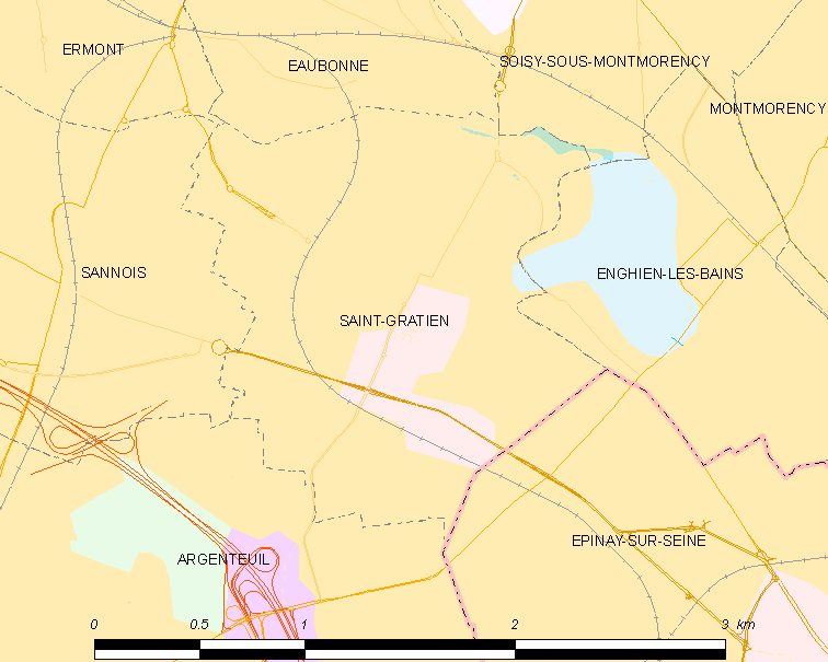 Map of French municipality Saint-Gratien